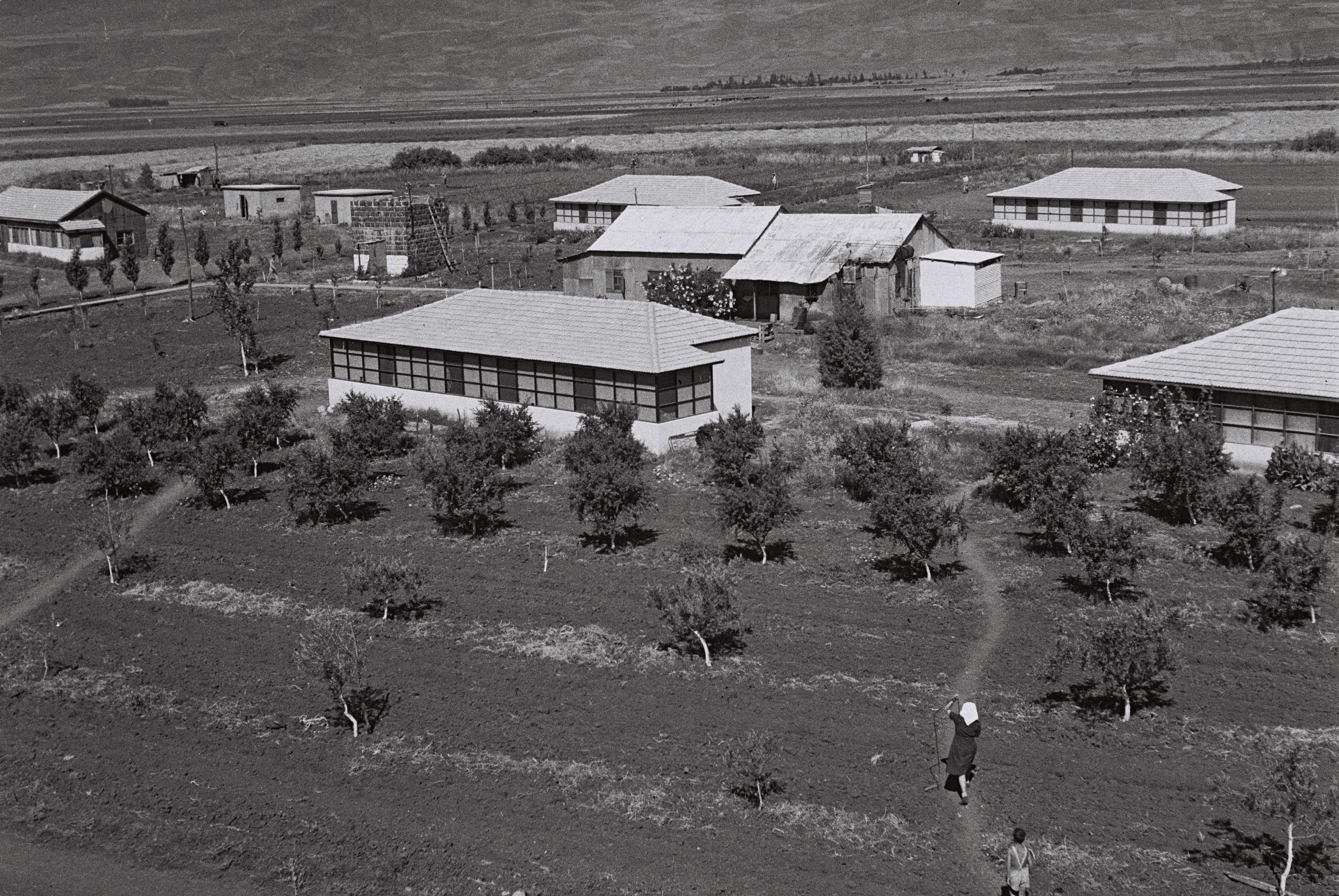 KIBBUTZ SDE NEHEMIA. קיבוץ שדה נחמיה בגליל העליון.